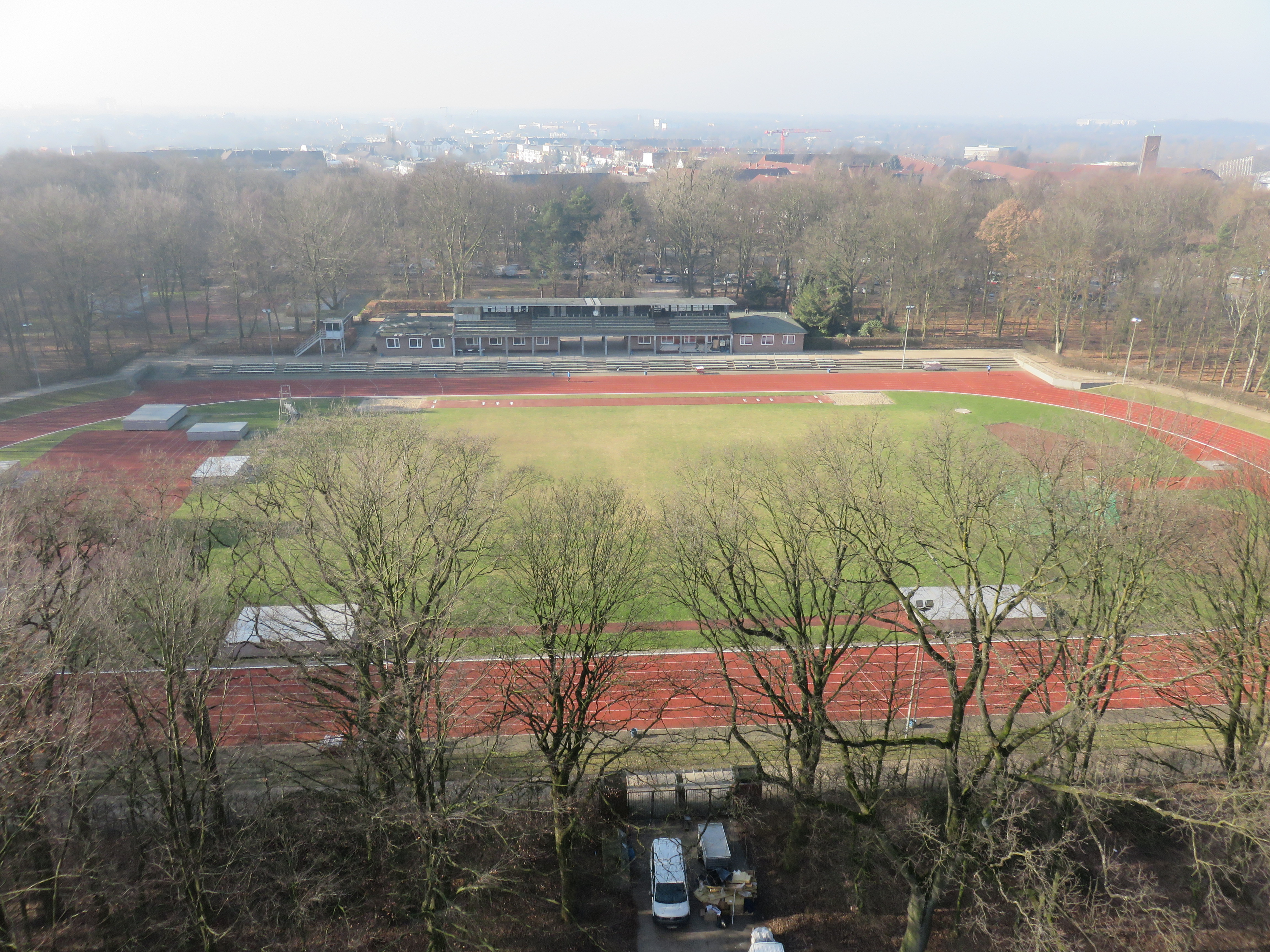 Jahnkampfbahn, view from the lookout platform of the Planetarium Hamburg